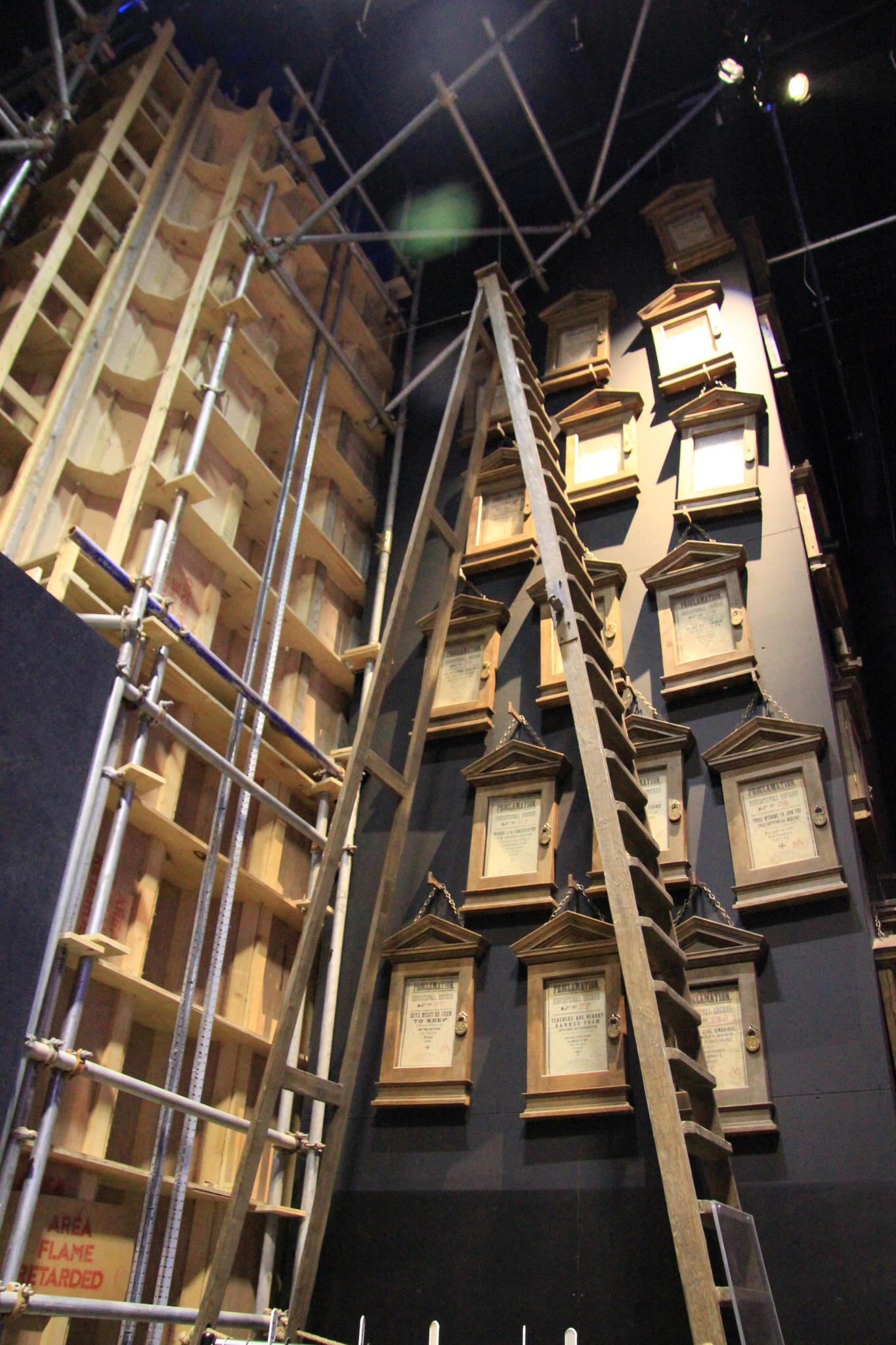 Warner Bros. Studio Tour London: The Making of Harry Potter.